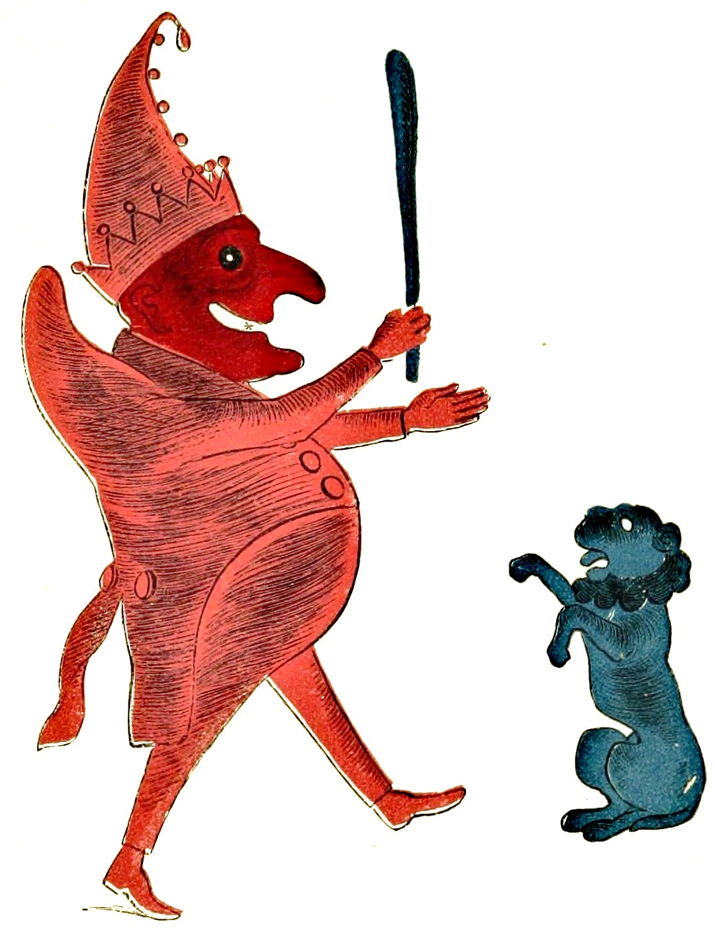 pg 45 of Spectropia, or, Surprising spectral illusions.